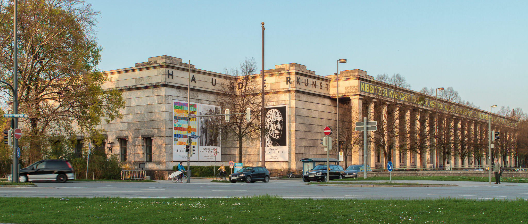 Haus der Kunst - Munich - 2013